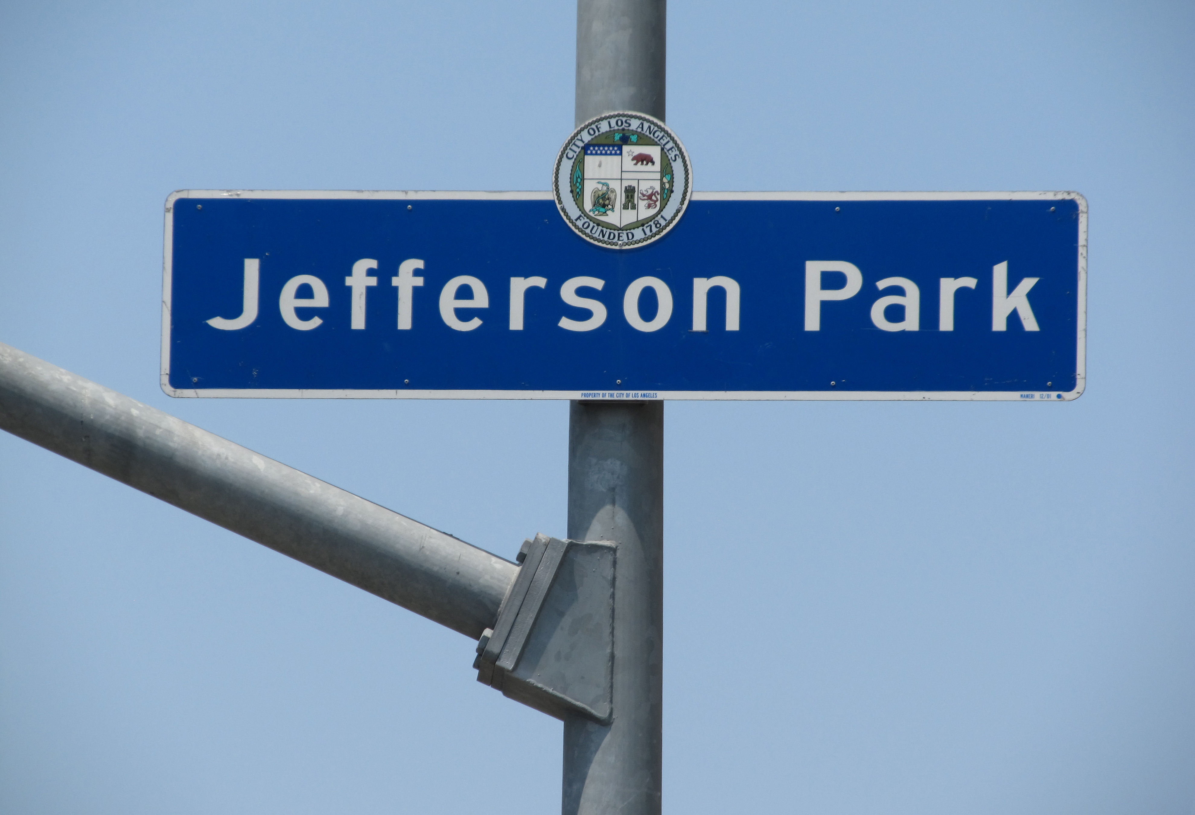 Jefferson Park sign located at the intersection of Jefferson Boulevard and 4th Avenue, Los Angeles, CA